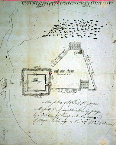 Sketch of Manor St. George, done for the Battle of Fort St. George.